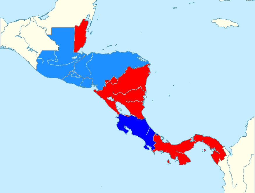 1991 UNCAF Nations Cup qualifiers